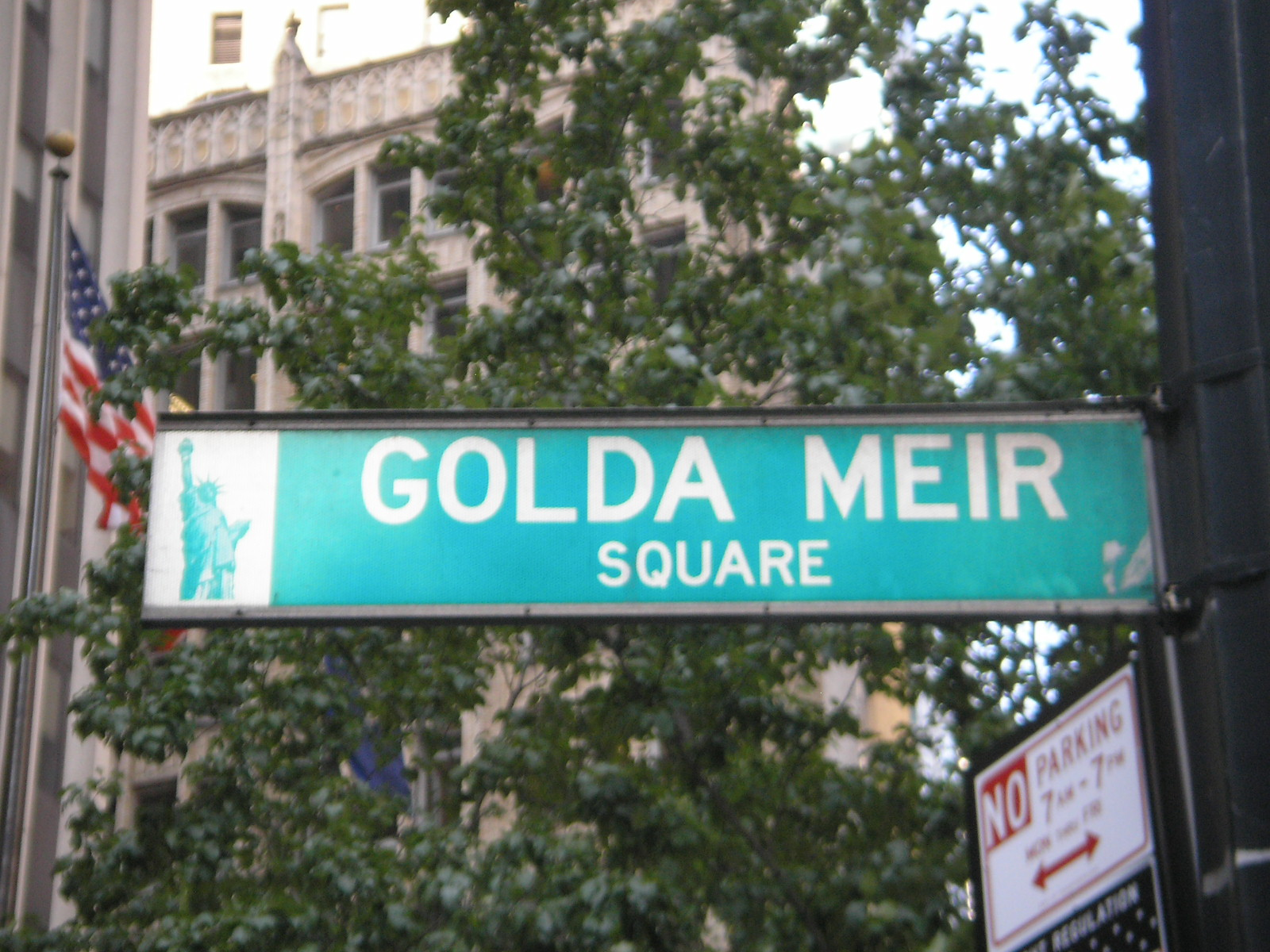 Golda Meir Square, at Broadway and W 39th Street.